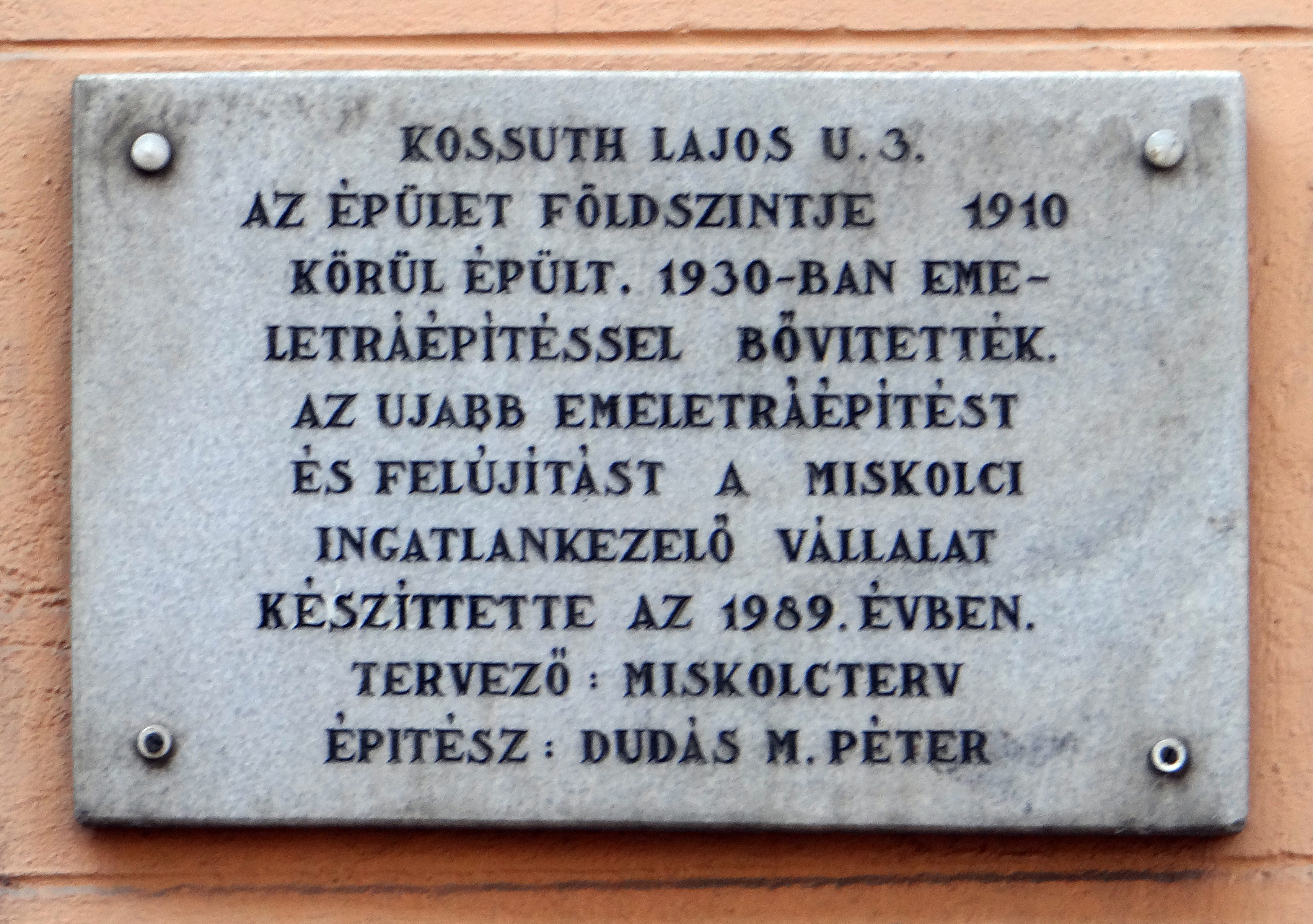 Plaque in 3 Kossuth Street (Pfliegler House), Miskolc